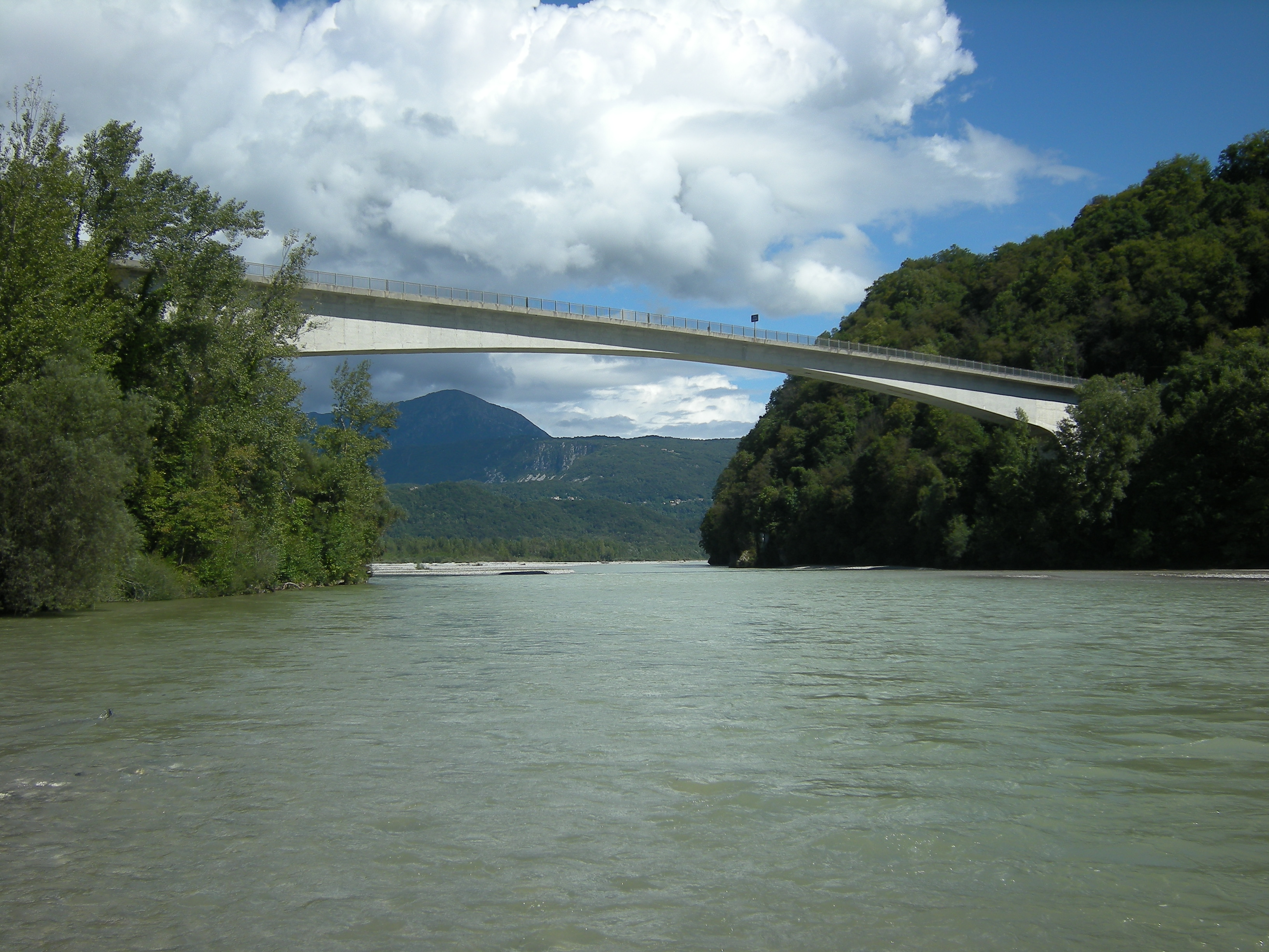 The Bridge of Pinzano on Tagliamento river